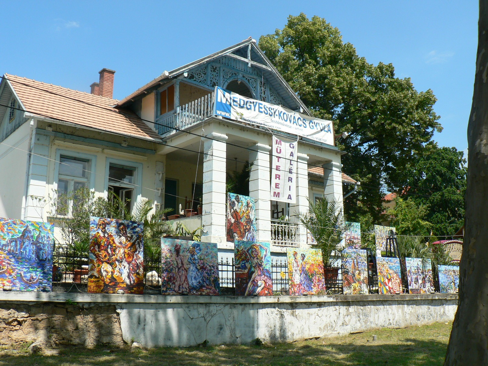 Medgyessy Kovács Gyula galériaháza Balatonfüreden 2